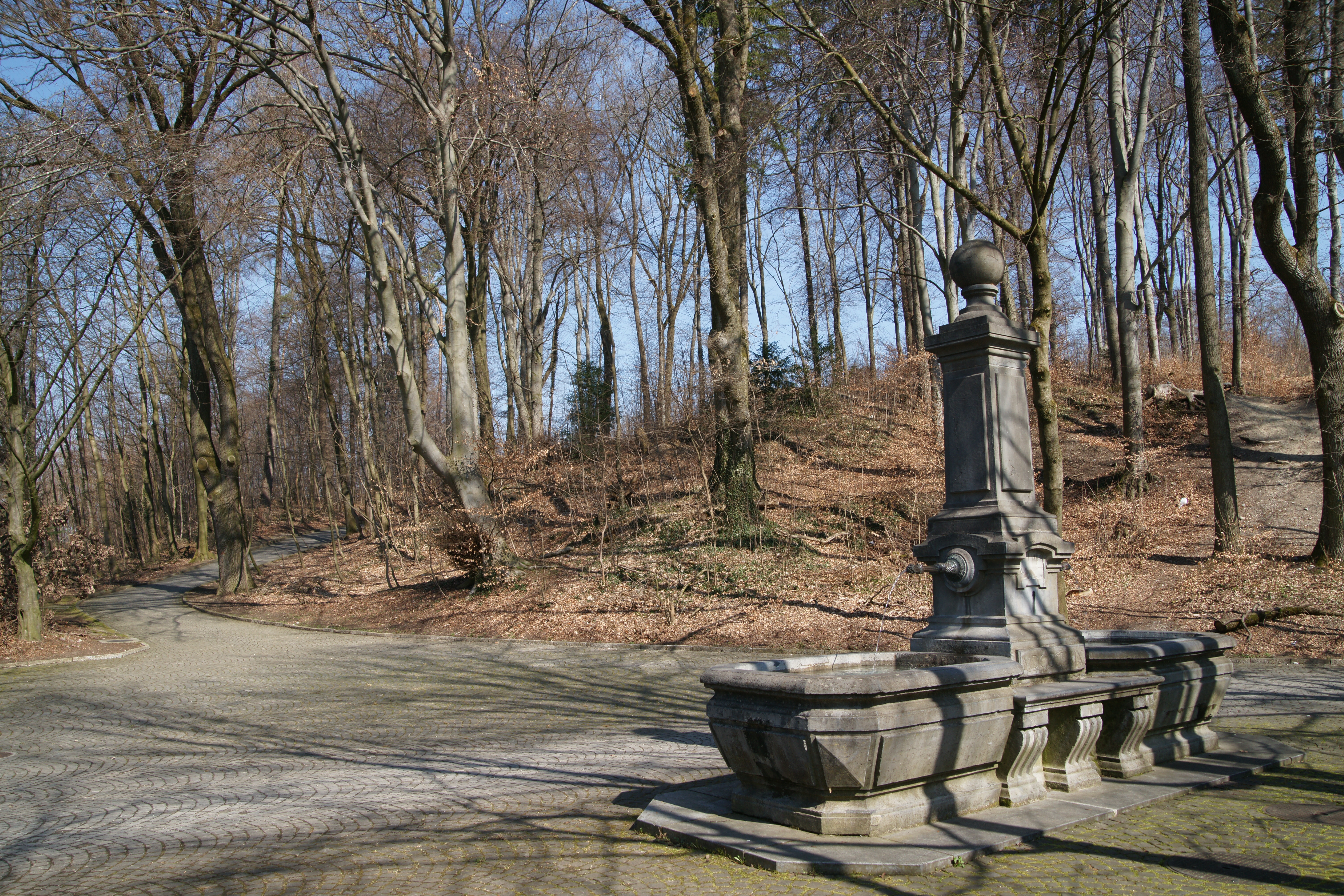 Steinhölzli fountain and park area, Bern, Switzerland.